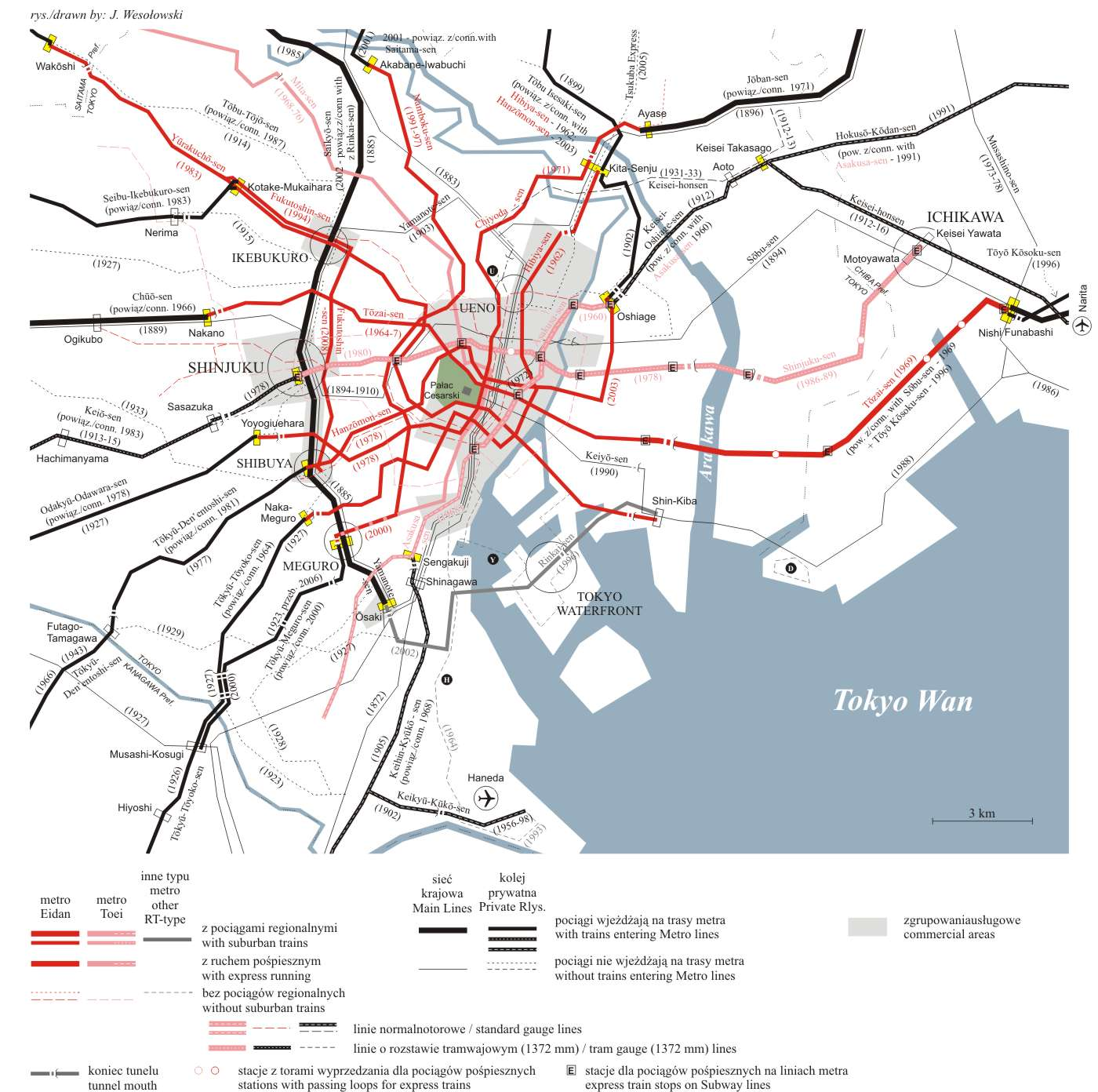 Tokyo Subway. Simplified geographical map showing reciprocal workings with regional railways